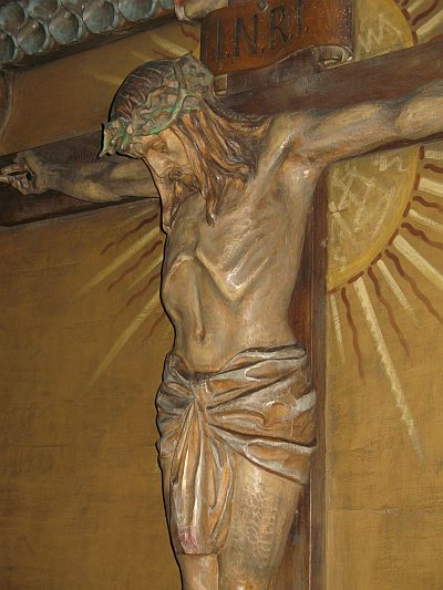 Crucified Christ carved by Paul Ondrusch for the church in Leobschuetz.